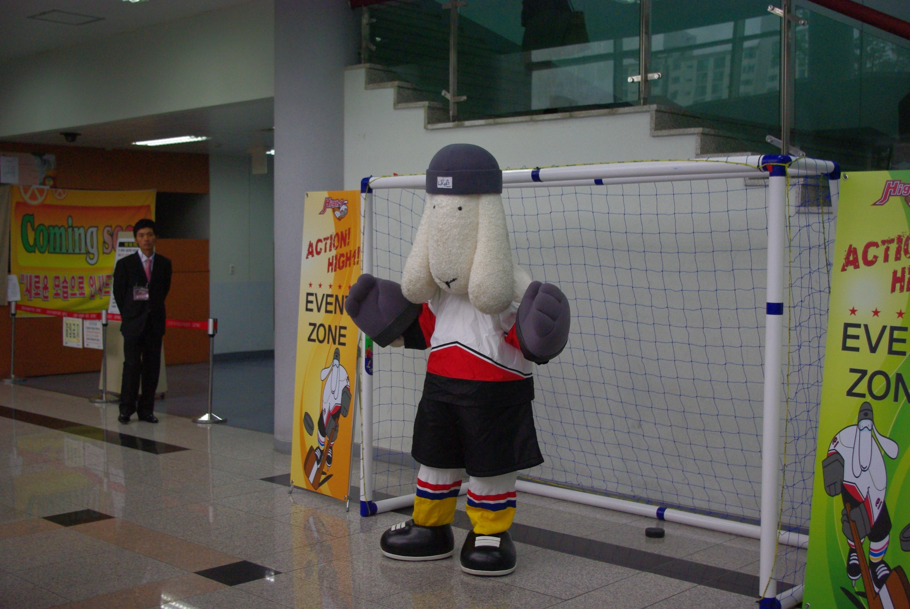 This is a photo of the High1 mascot at the High1 2009 home opener